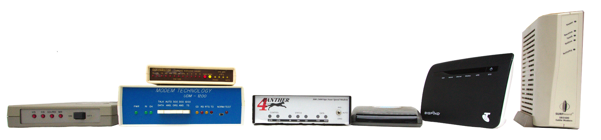 Various modems from Australian history, from telephone to DSL and cable-modems.